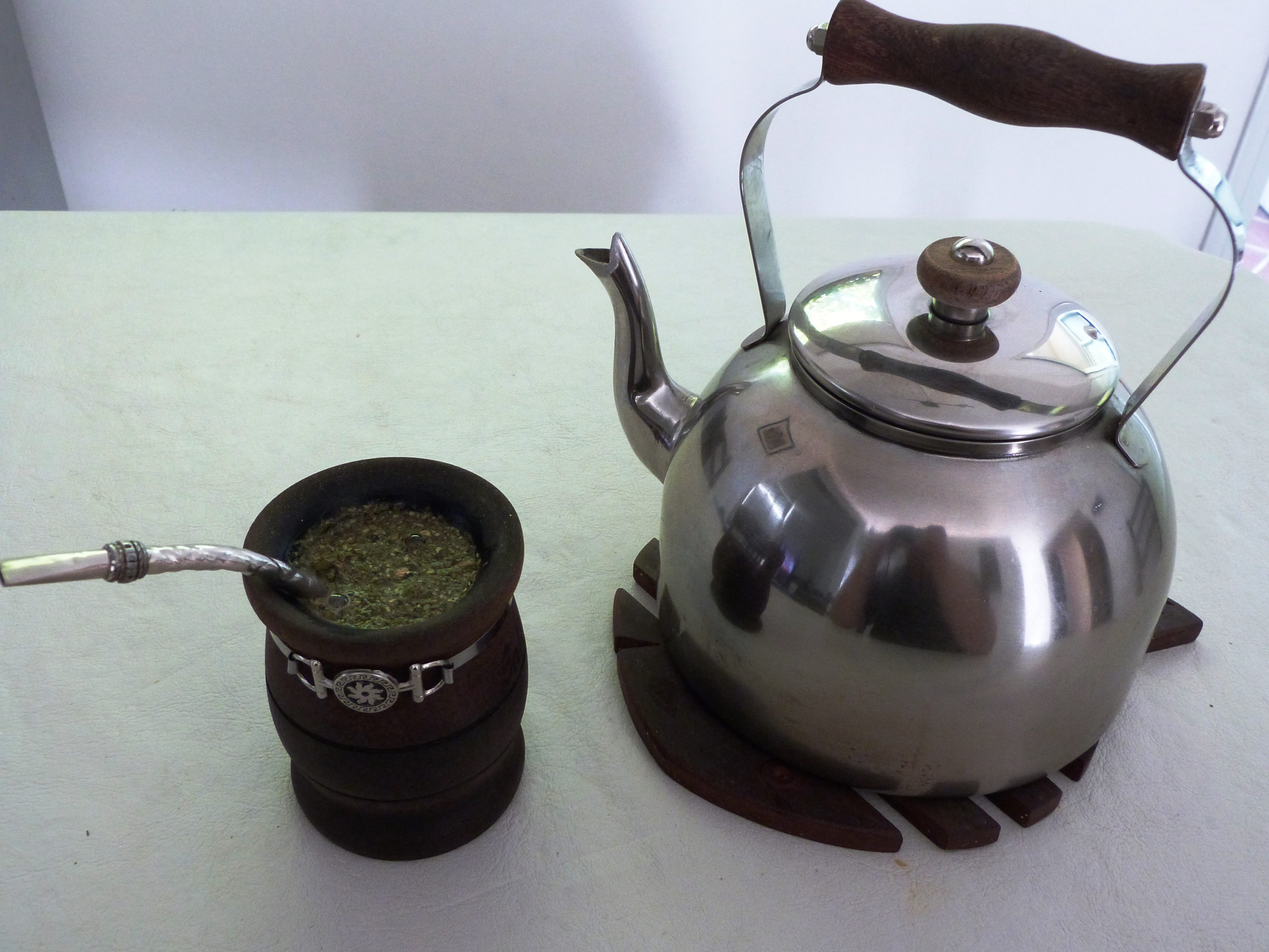 Argentina national infusion.